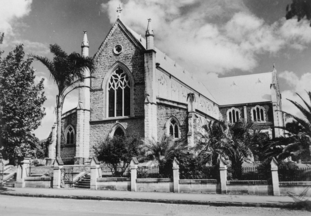 St. Patrick's Cathedral, Toowoomba, 1953.